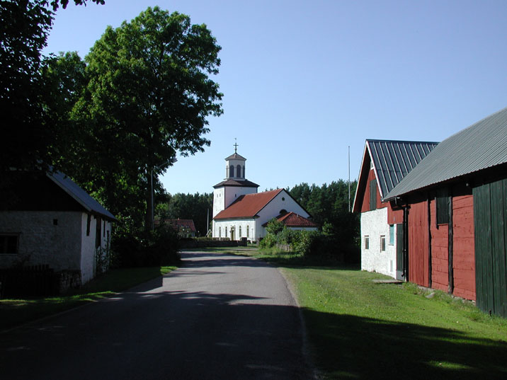 Föra Church.View from the village street